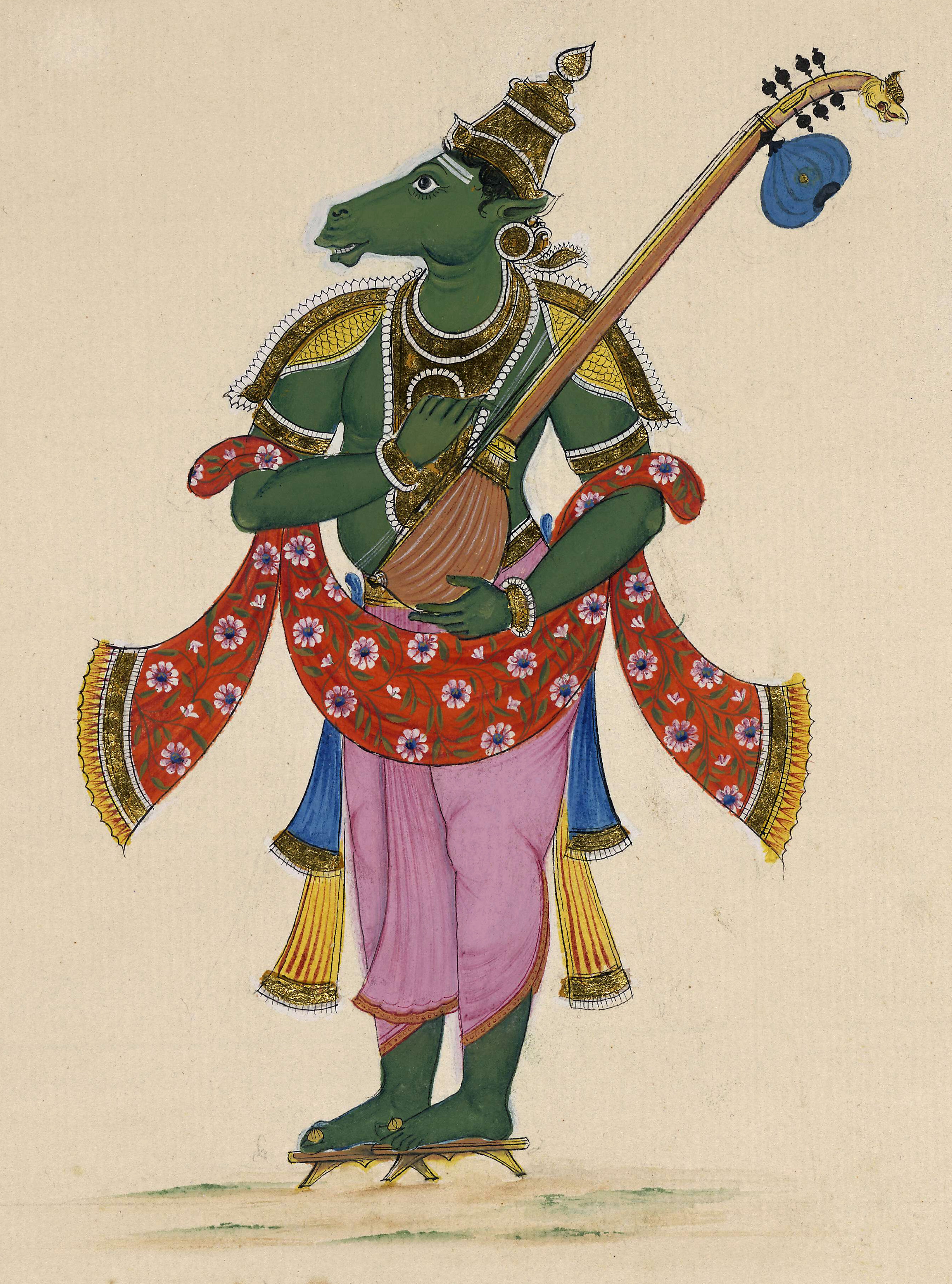 Painting of the heavenly musician Tumbara. "He is horse-headed and wears a magnificent angavastram of scarlet stuff decorated with a floral design. He is shown crowned, with two arms and holding a vina. On laid European paper watermarked with the date '1816'"